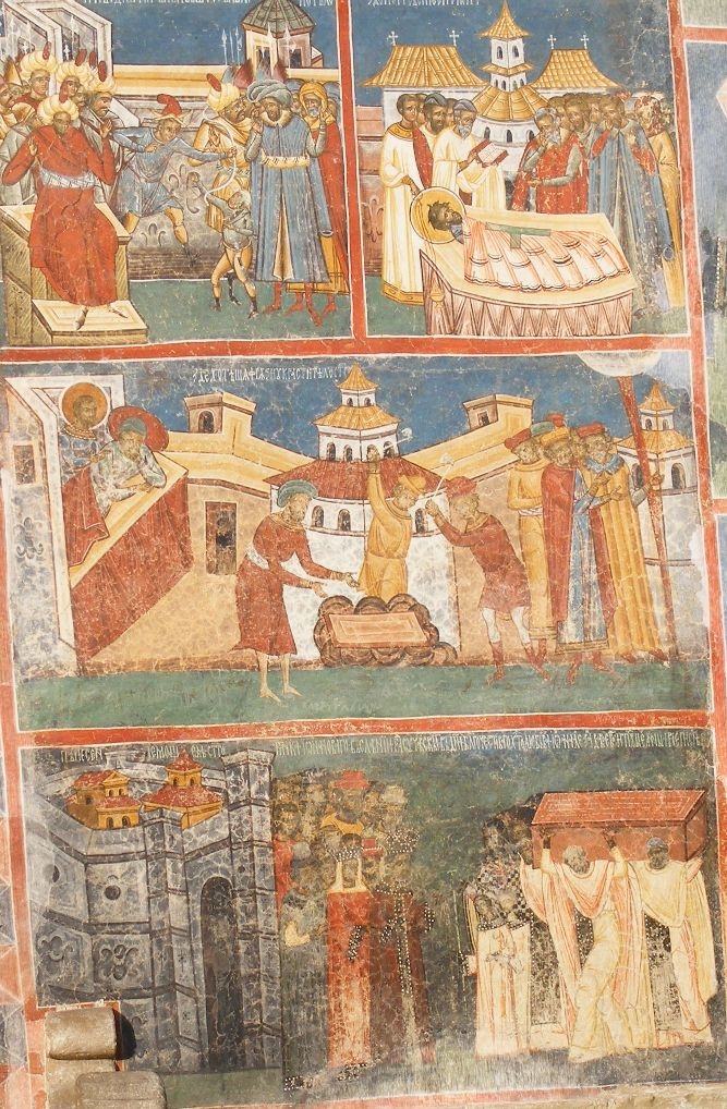 Fresco from Voronet